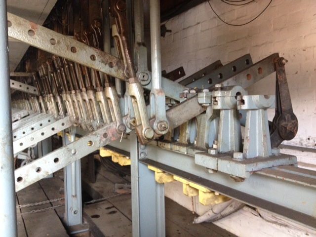 Balance levers of BR standard lever frame fitted with Andre Hartford shock absorbers. Stafford No.4 Signal Box